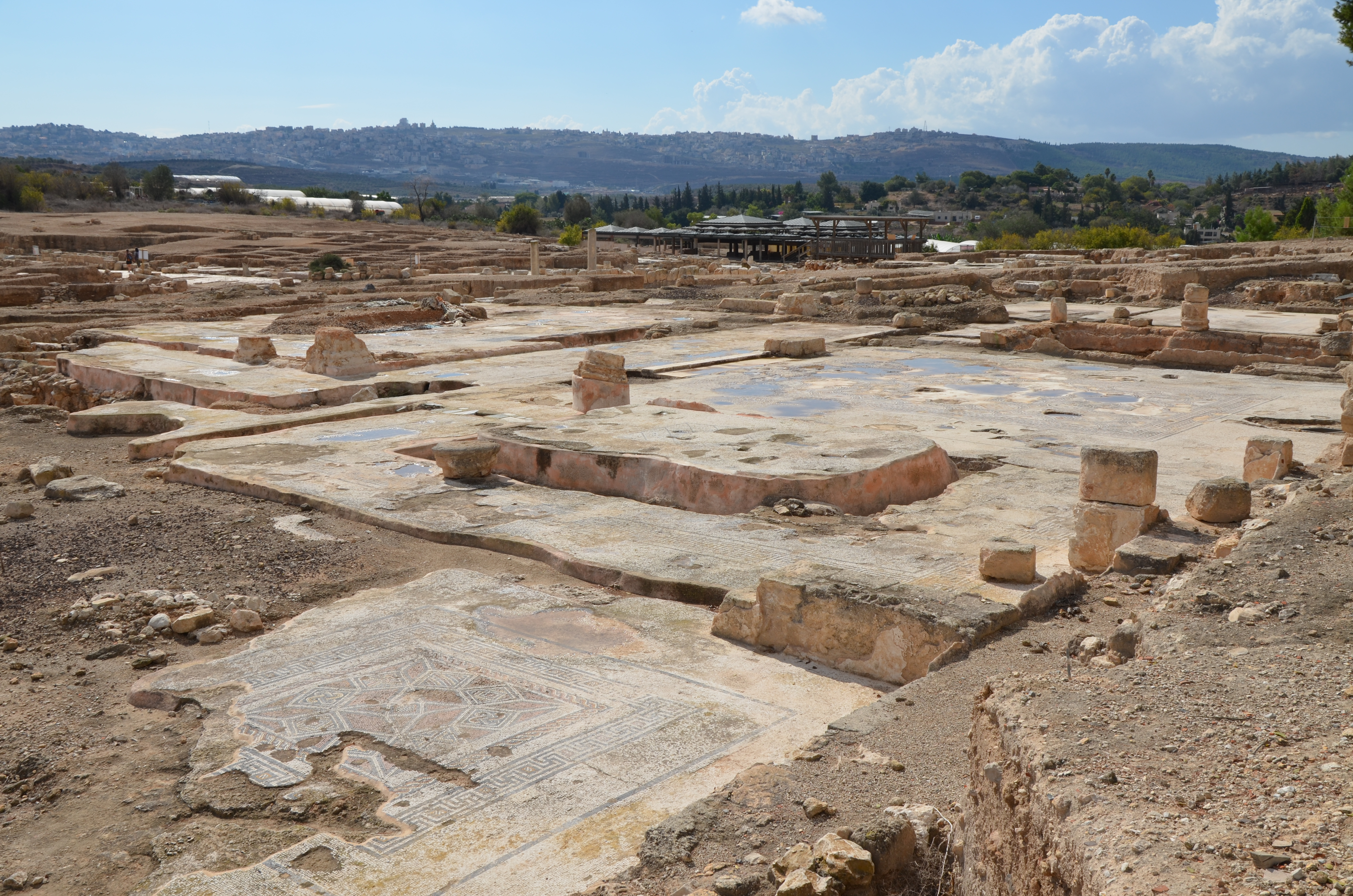 Sepphoris (Diocaesarea), Israel